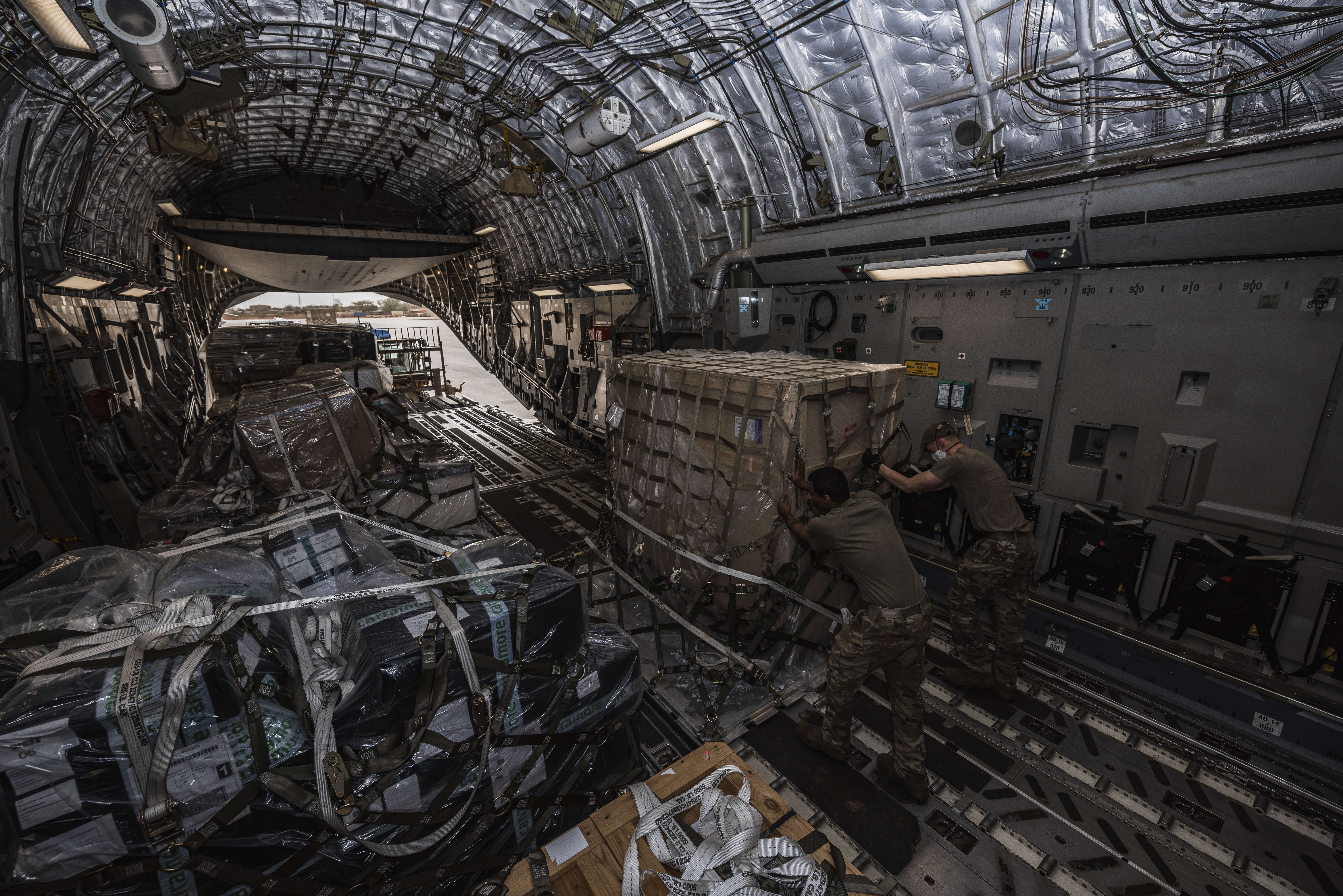 U.S. Air Force Airmen unload a C-17 Globemaster III aircraft assigned to Joint Base McGuire-Dix-Lakehurst, New Jersey in Niamey, Niger, April 23, 2020. The cargo included approximately 4,000 pounds of medical supplies provided by Navy Medical Research Unit Three-Ghana Detachment, to be delivered to the Government of Ghana in support a global response the COVID-19 pandemic. (U.S. Air Force photo by Staff Sgt. Devin Nothstine)